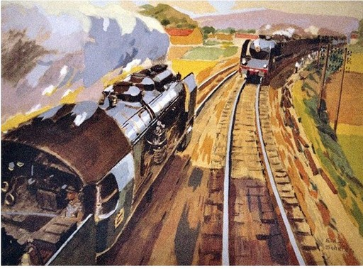 Trains, painting by E. A. Schefer.